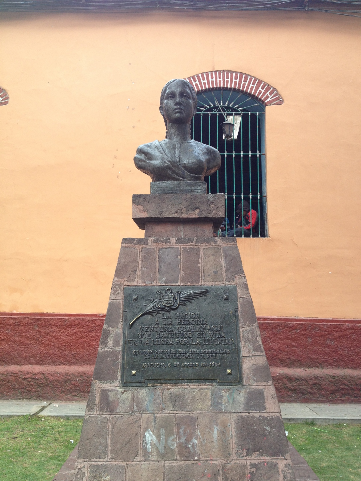 Photos of Ayacucho taken by E. Zambrano